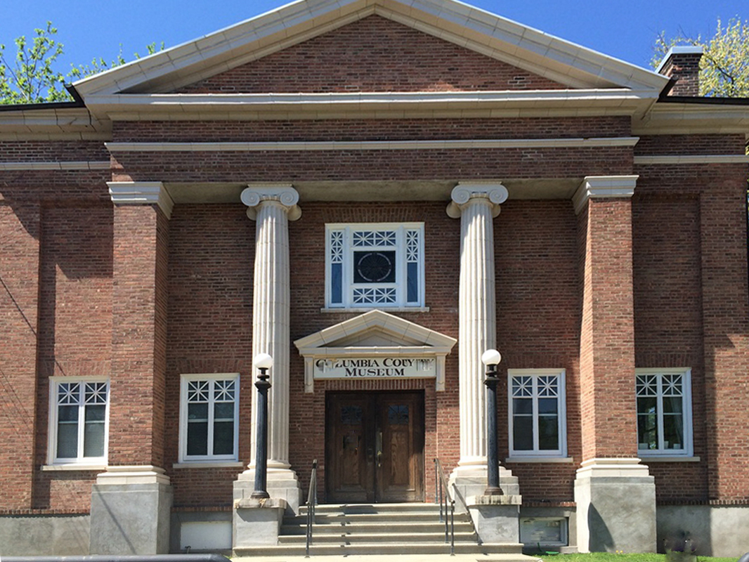 CCHS Museum & Library building, c.1915